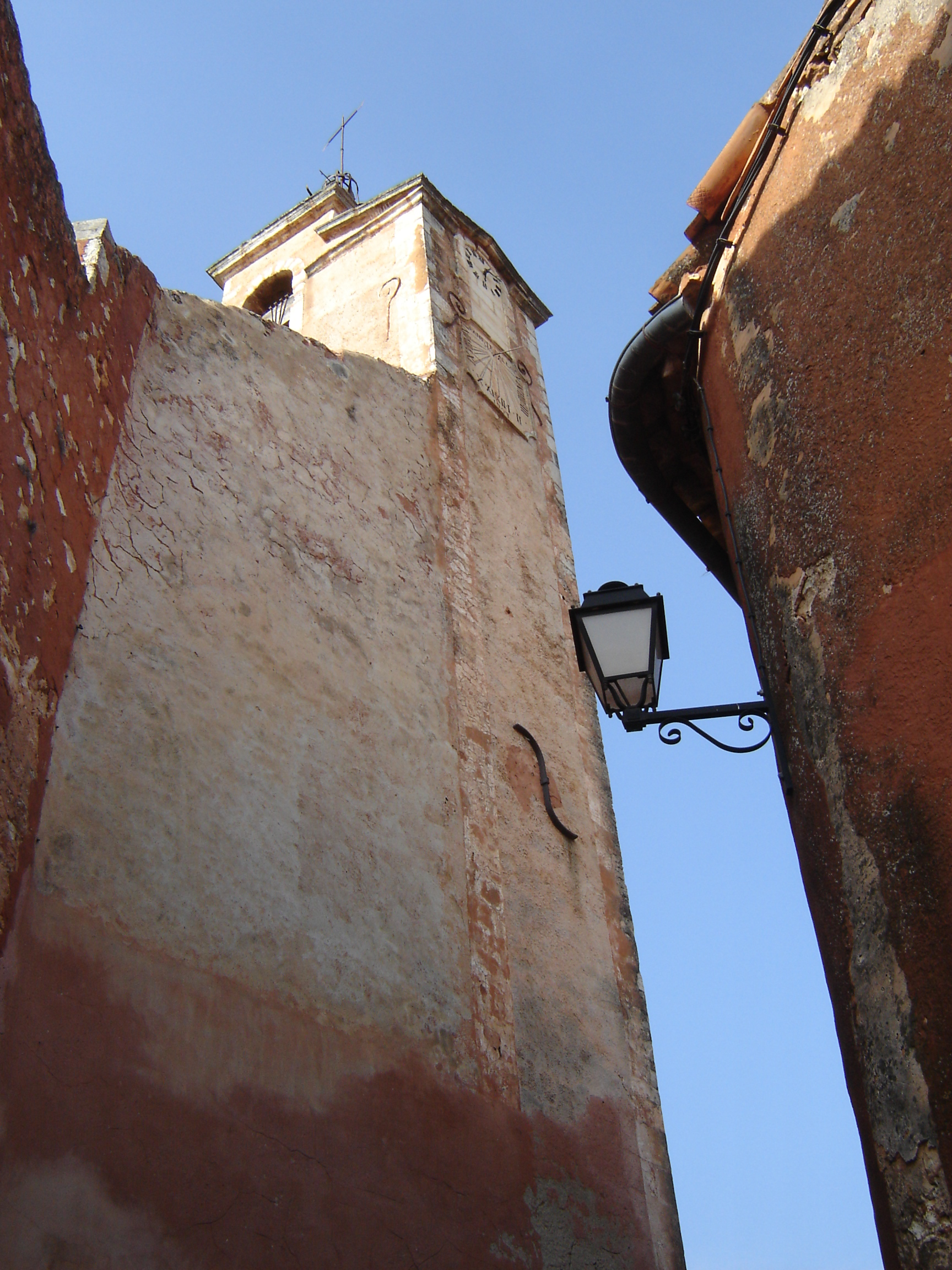 Street in Roussillon, Vaucluse (France)